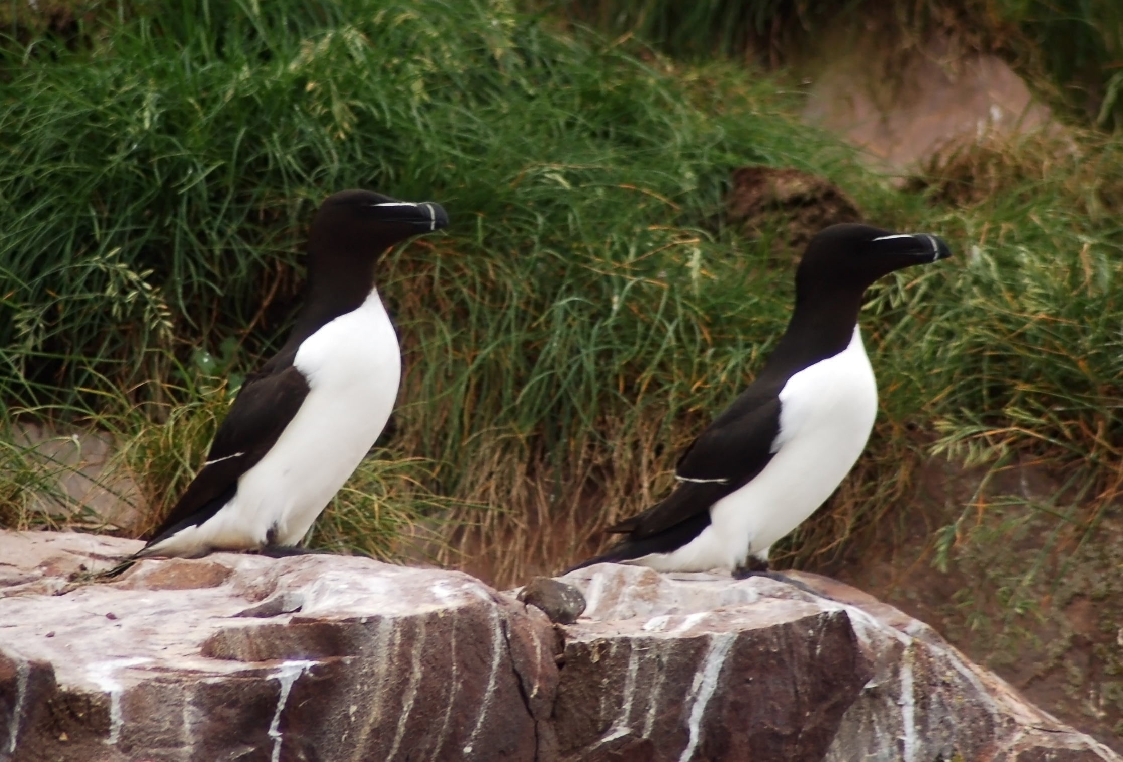 Two adult Razorbills (Alca torda) resting on rocks on Gull Island in the Witless Bay Ecological Reserve, Newfoundland.